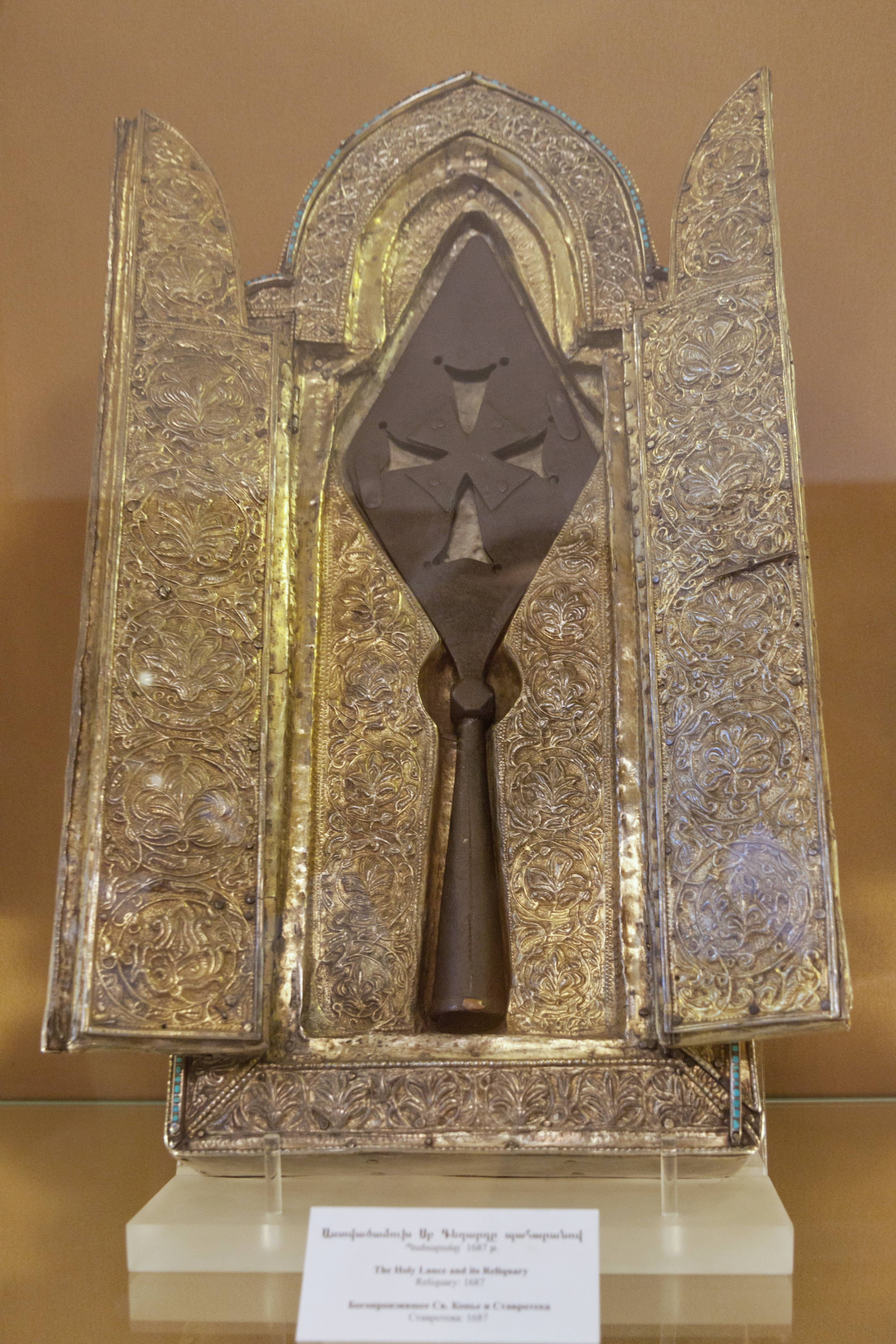 Holy Lance. Etchmiadzin Cathedral. Vagharshapat, Armavir Province, Armenia.